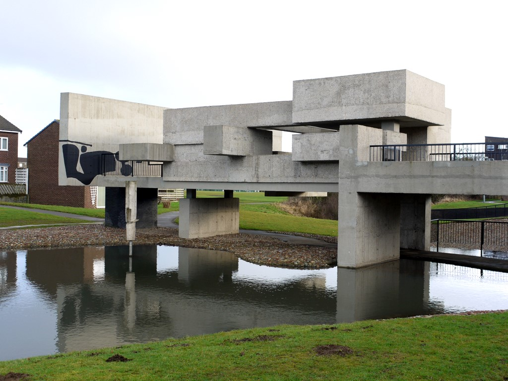 Victor Pasmore's 'Apollo Pavilion', Peterlee. The concrete 'thing' that stands in the water 1705711 can be seen in front of the 'bridge'. One of his blobby art works has been restored on the far concrete wall.